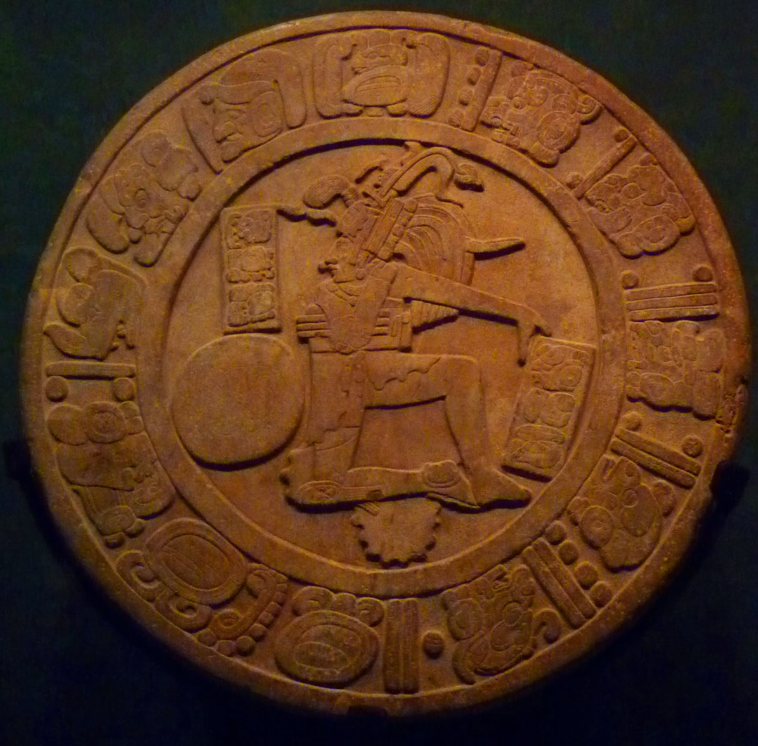 Maya ballgame marker exhibited at Museo Nacional de Antropología e Historia, México